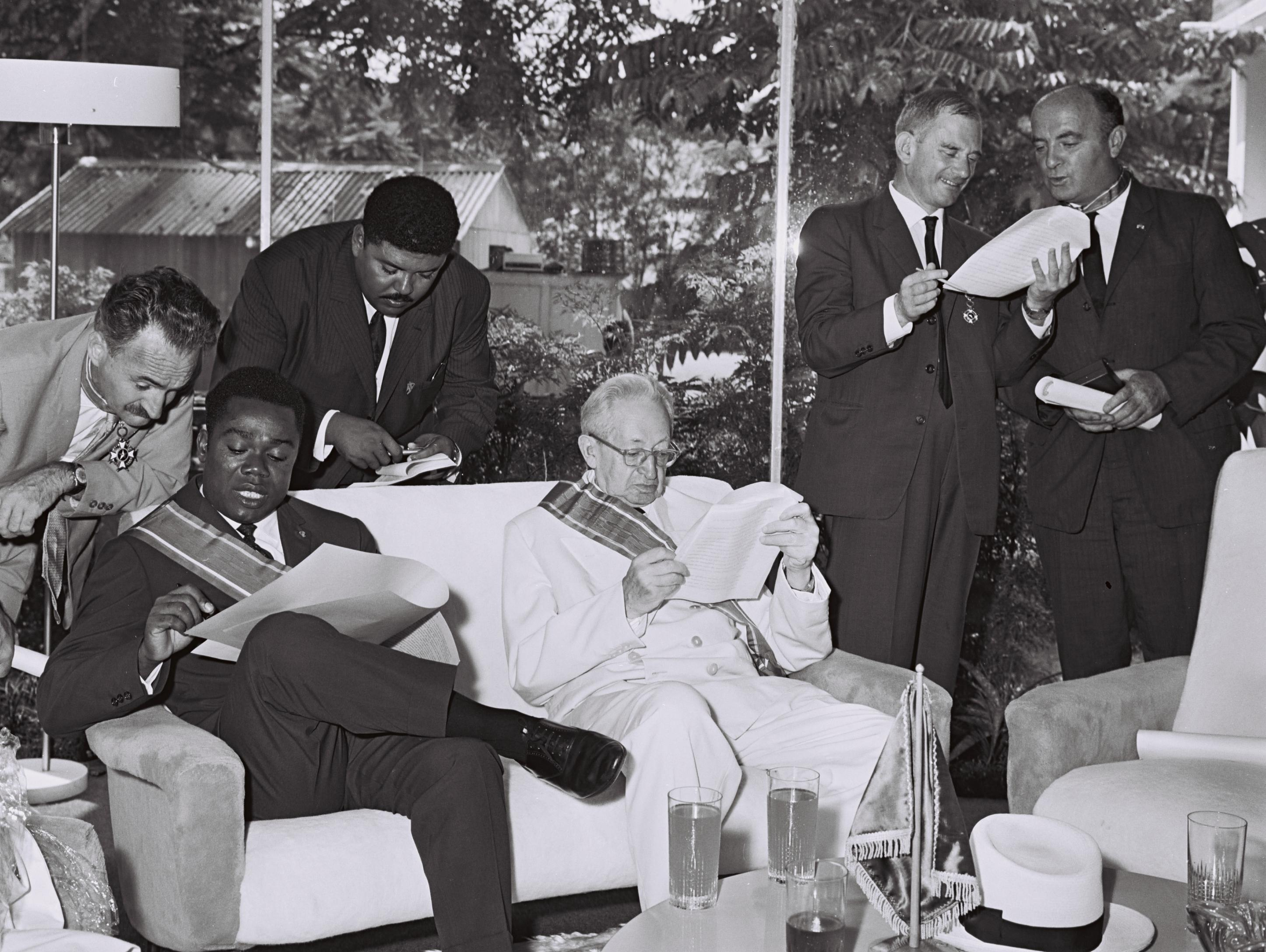 President of Israel, Yitzhak Ben Zvi during a visit to President of Central African Republic, David Dacko. Both wearing the sash of the Grand Officier de l'Ordre du Mérite Centrafricain